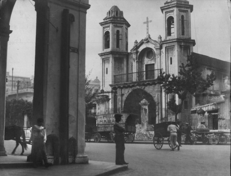 Iglesia Santo Cristo del Buen Viaje_1930.. Havana, Cuba